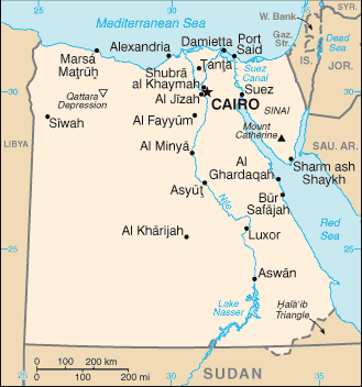 A map of Egypt, showing major cities.